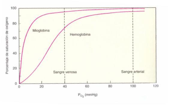 Gràfica d'associació de l'hemoglobina